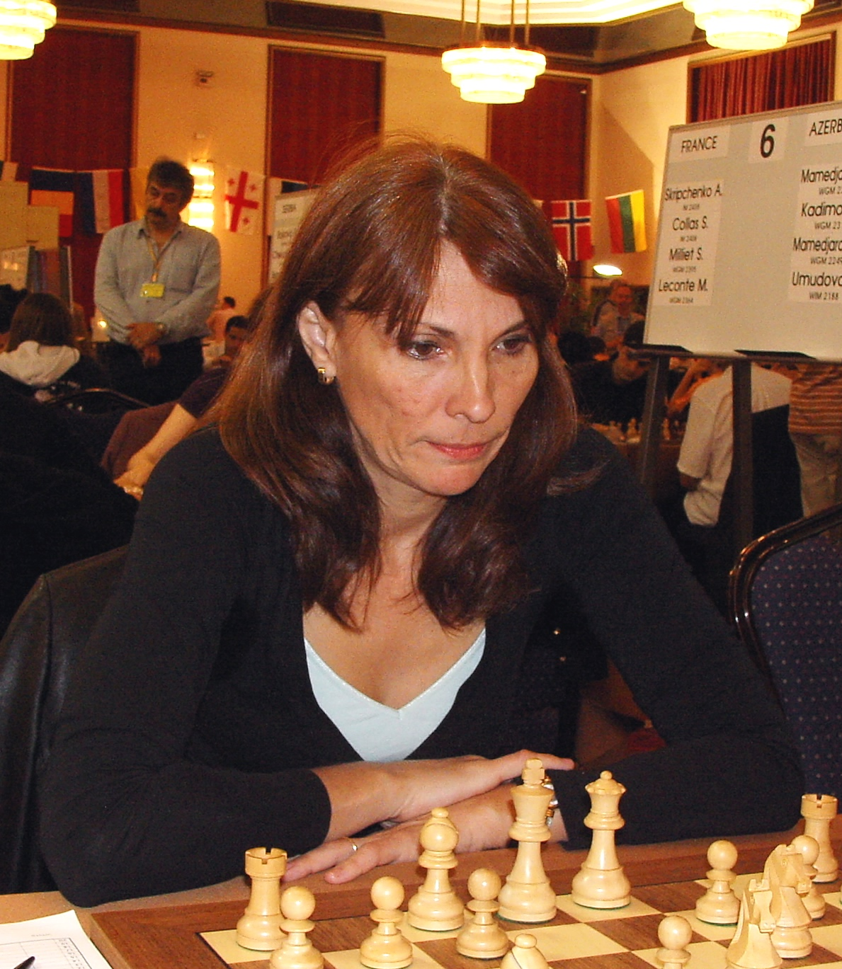 WGM Marina Makropoulou Greece, EuroChess Iraklion 2007